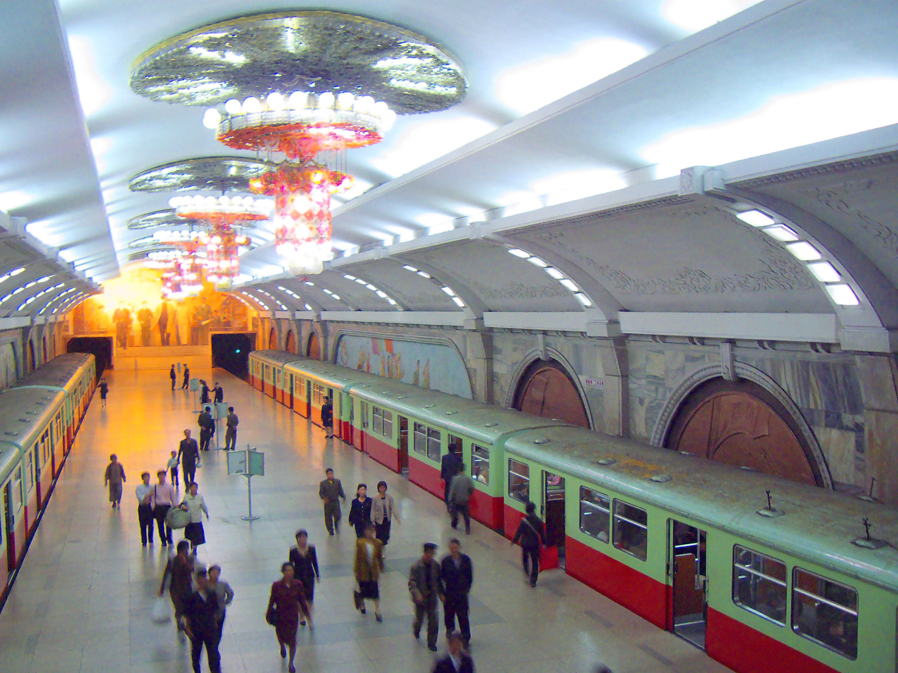 Pyongyang Metro, operating since 1973, is the deepest metro in the world, at some 110m underground. The purpose for building it so deep is so that the stations can function as bomb shelters when needed. The stations are not named by location but by revolutionary terminology such as Puhung (Reconstruction), Yonggwang (Glory), Hwanggumbol (Golden Fields), Pulgunbyol (Red Star) and Chonru (Comrade).